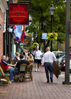 Sidewalk Cafe, Location: Baltimore